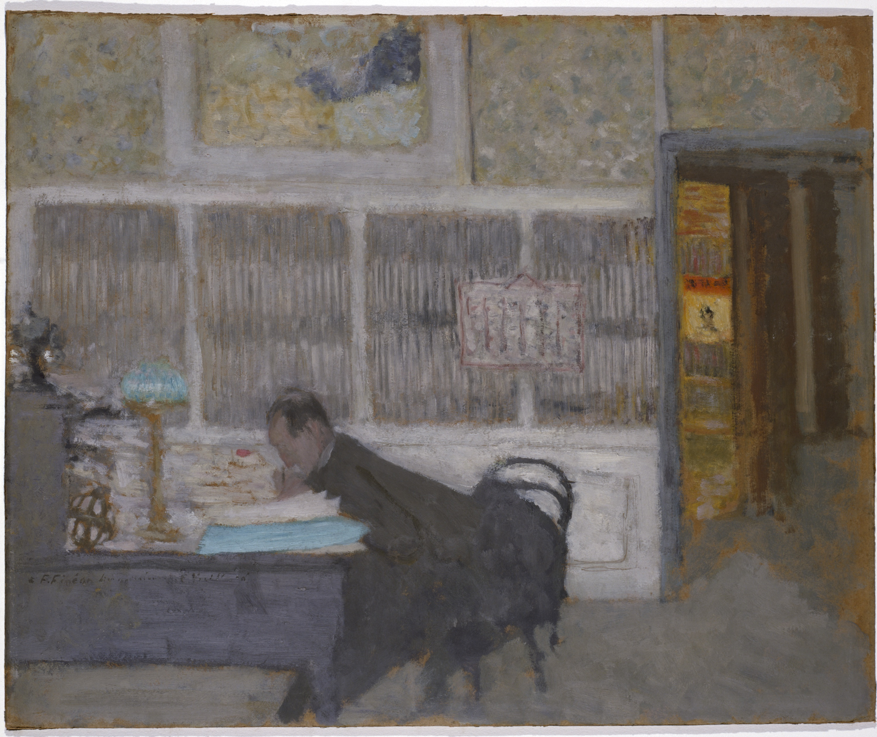 This file was provided to Wikimedia Commons by the Solomon R. Guggenheim Museum as part of a cooperation project. The Solomon R. Guggenheim Museum provides images depicting artworks which are public domain or licensed under a free license.